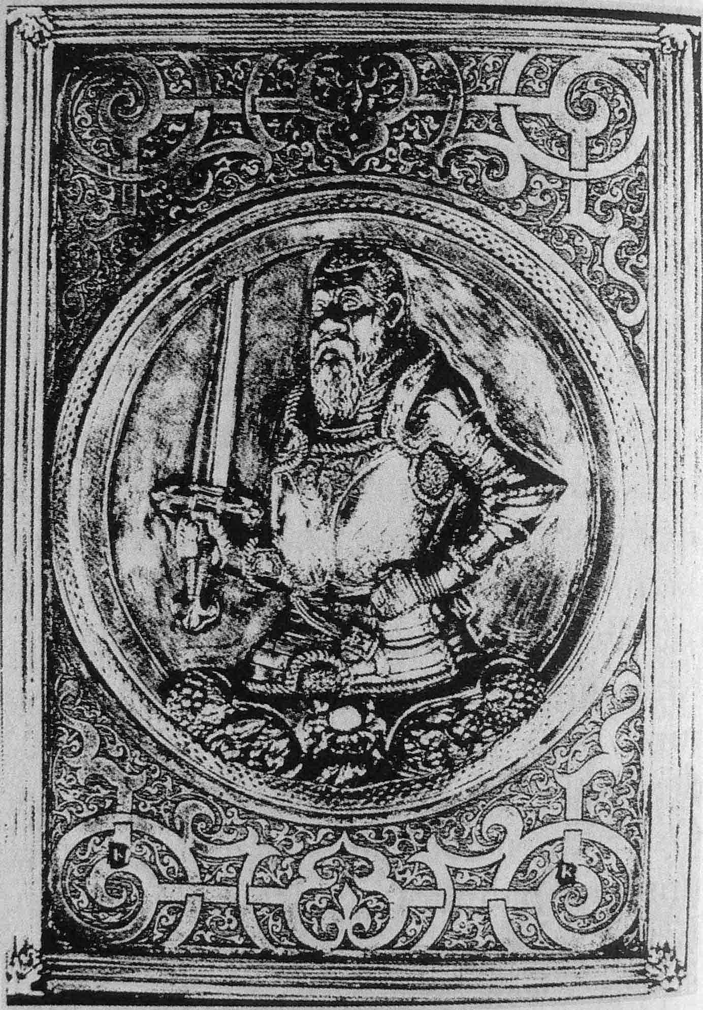 Book cover of a book from the silver library in the university library of Königsberg, founded by Duke Albert of Prussia (lost since 1945).